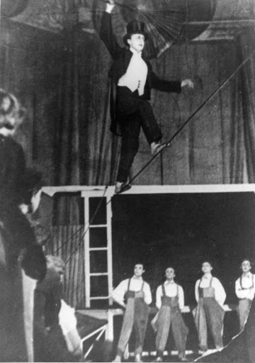 Future film director plays Glumov for Sergei Eisenstein production in 1923 "Wise man" ('Enough Stupidity in Every Wise Man')